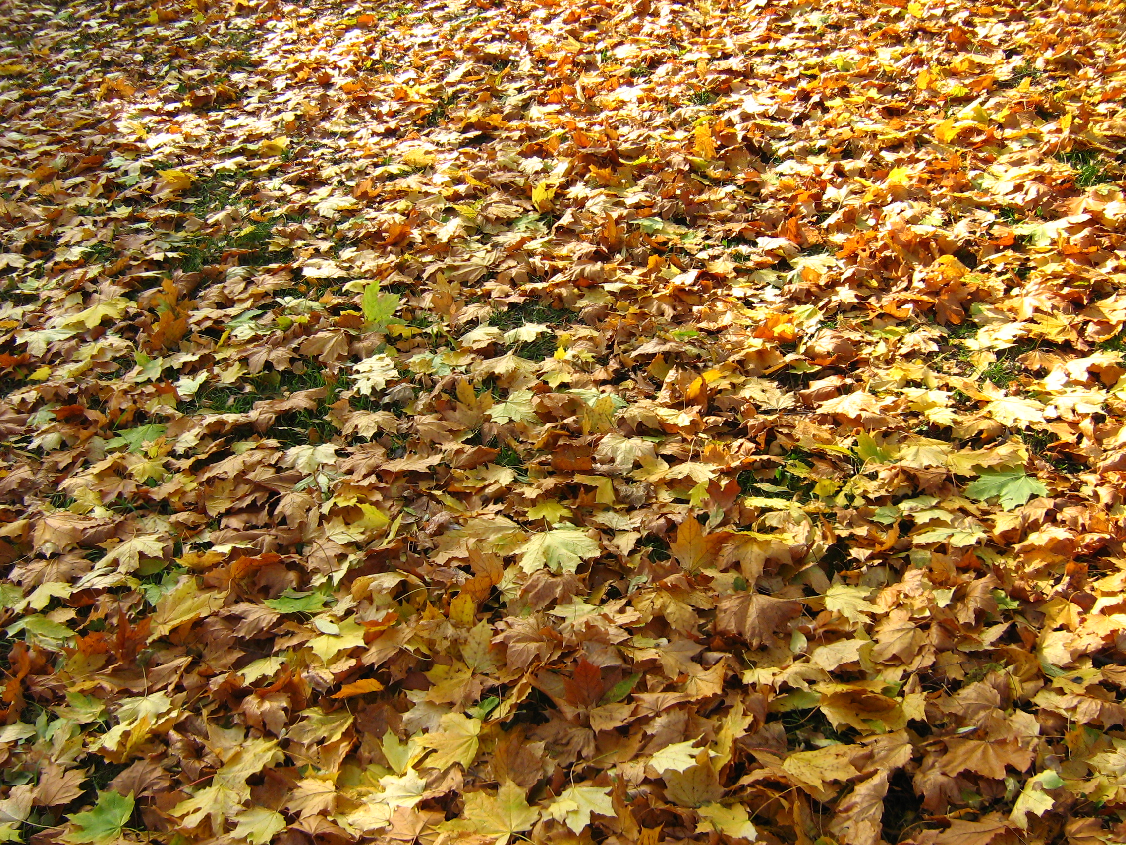 Autumn leaves. Kharkov Lesopark. October, 15.